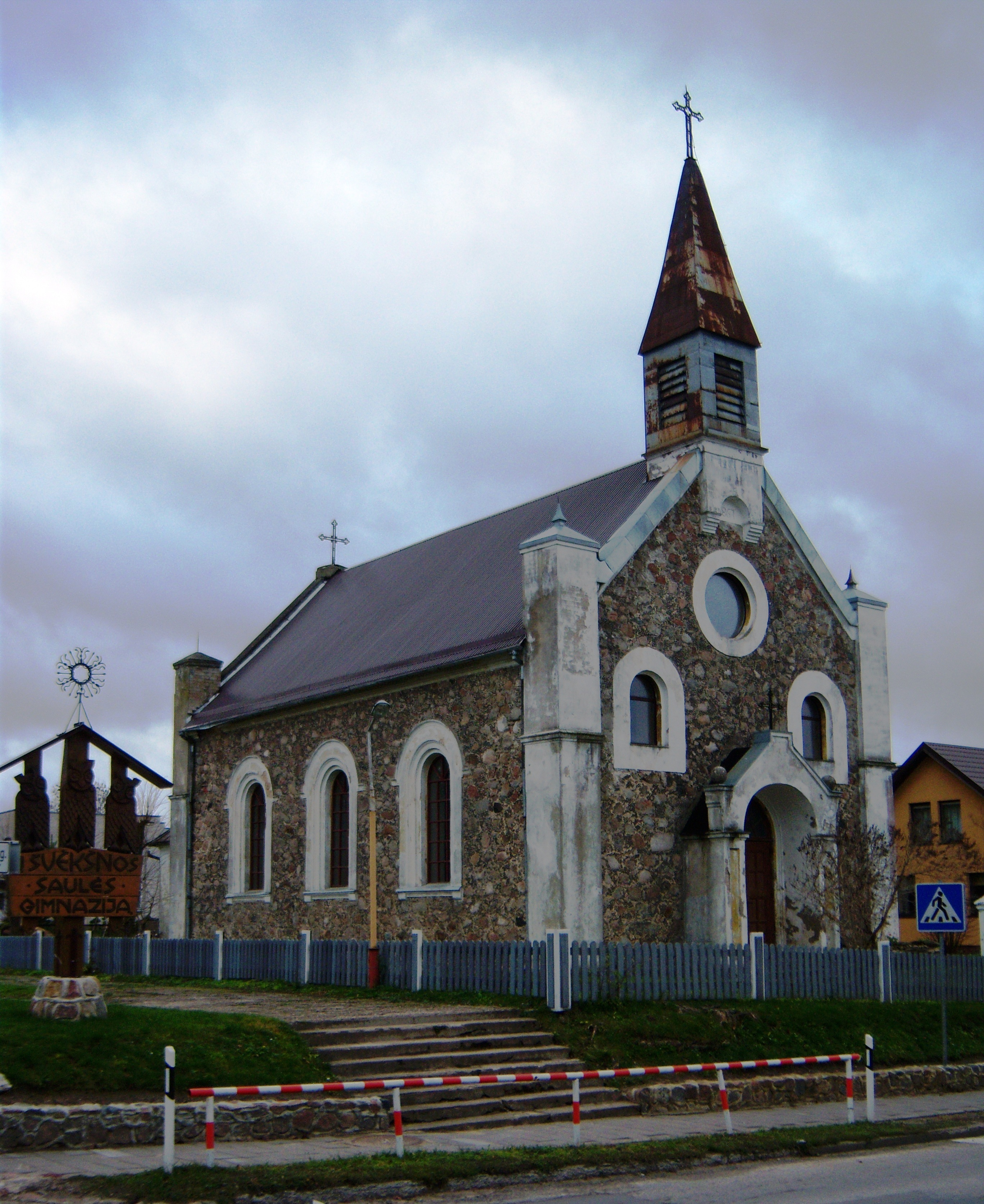 Evangelical Lutheran Church in Švėkšna, Šilutė District, Lithuania